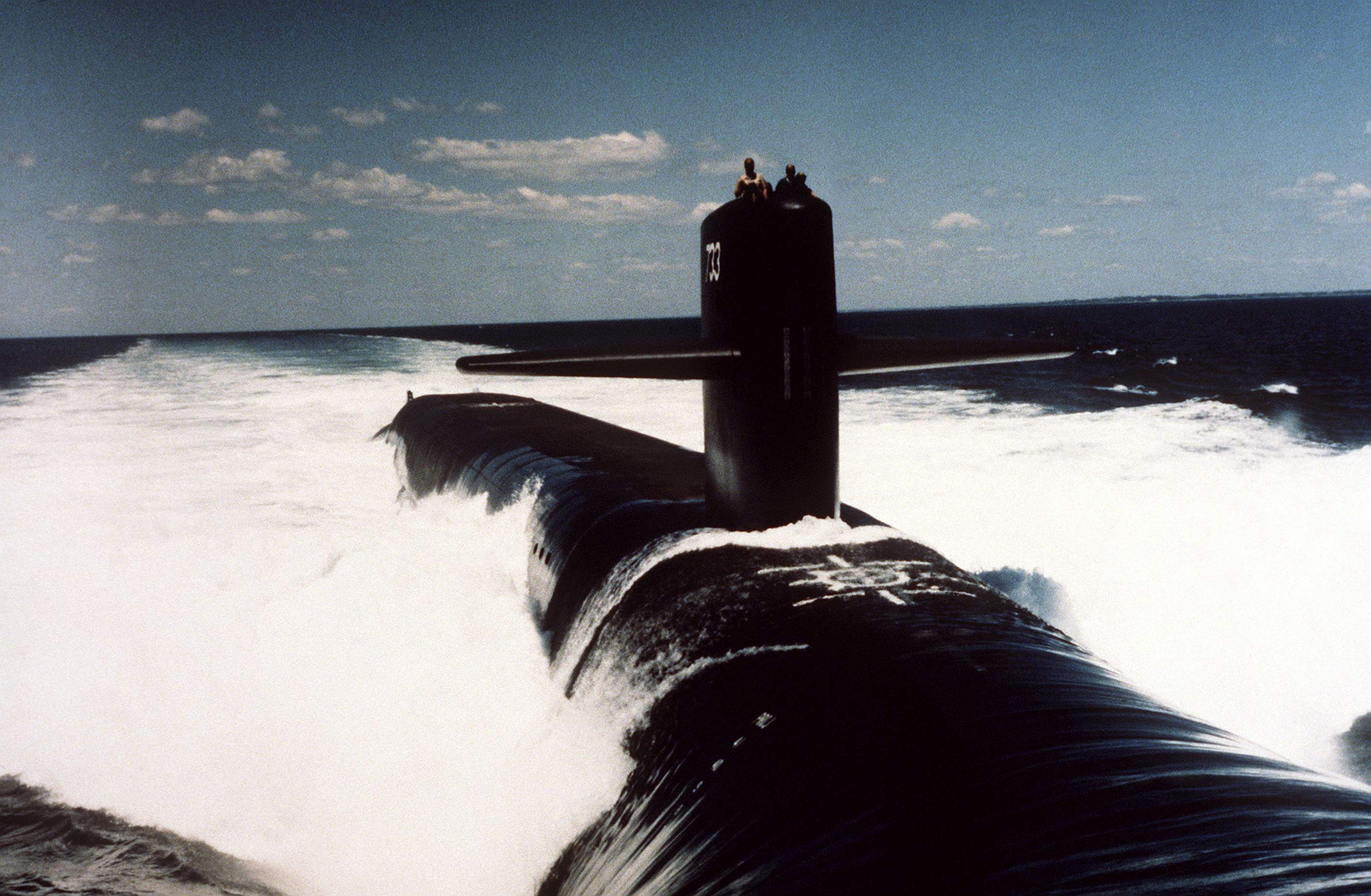 United States Navy ballistic missile submarine off the United States East Coast on her commissioning day.